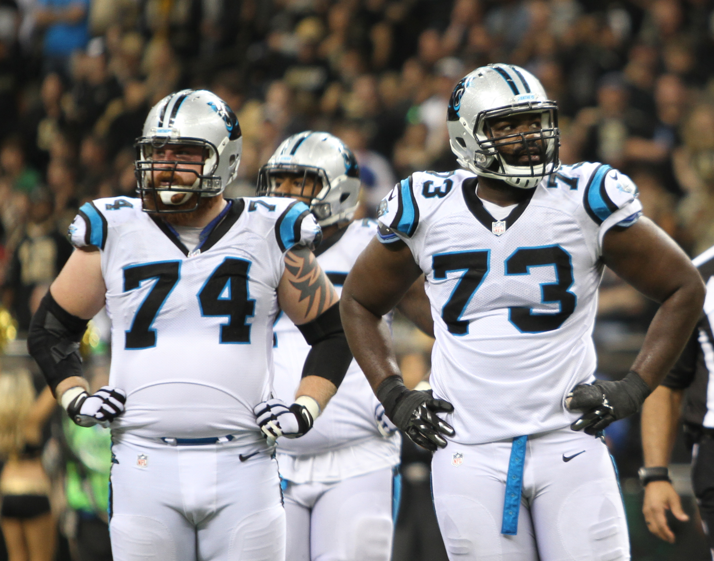 New Orleans Saints vs Carolina Panthers, December 6, 2015, Tammy Anthony Baker, Photographer